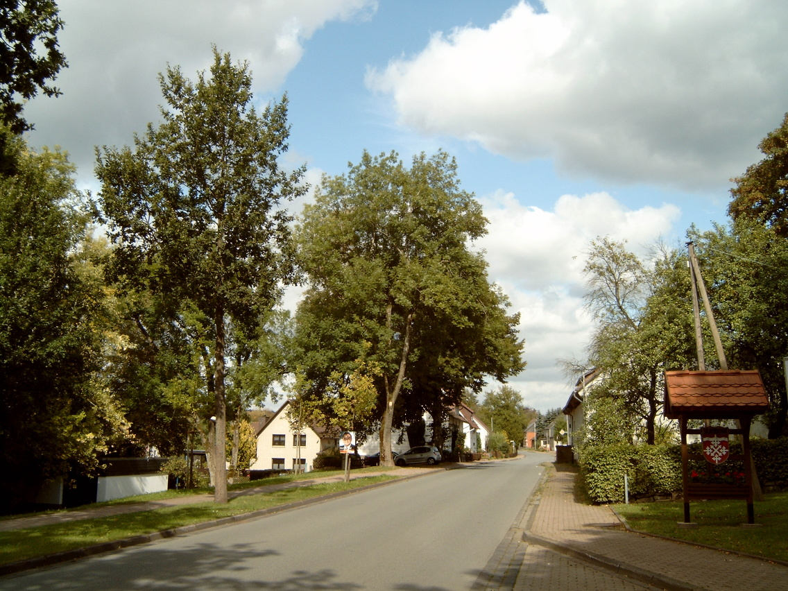 village "Silberborn", regional street L549, western village entrance